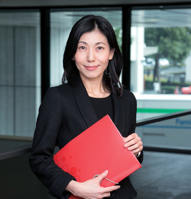 Hiroko Ōtsubo was inaugurated as Head of the Medical Safety Promotion Office, General Affairs Division, Health Policy Bureau, Ministry of Health, Labour and Welfare on 2013.